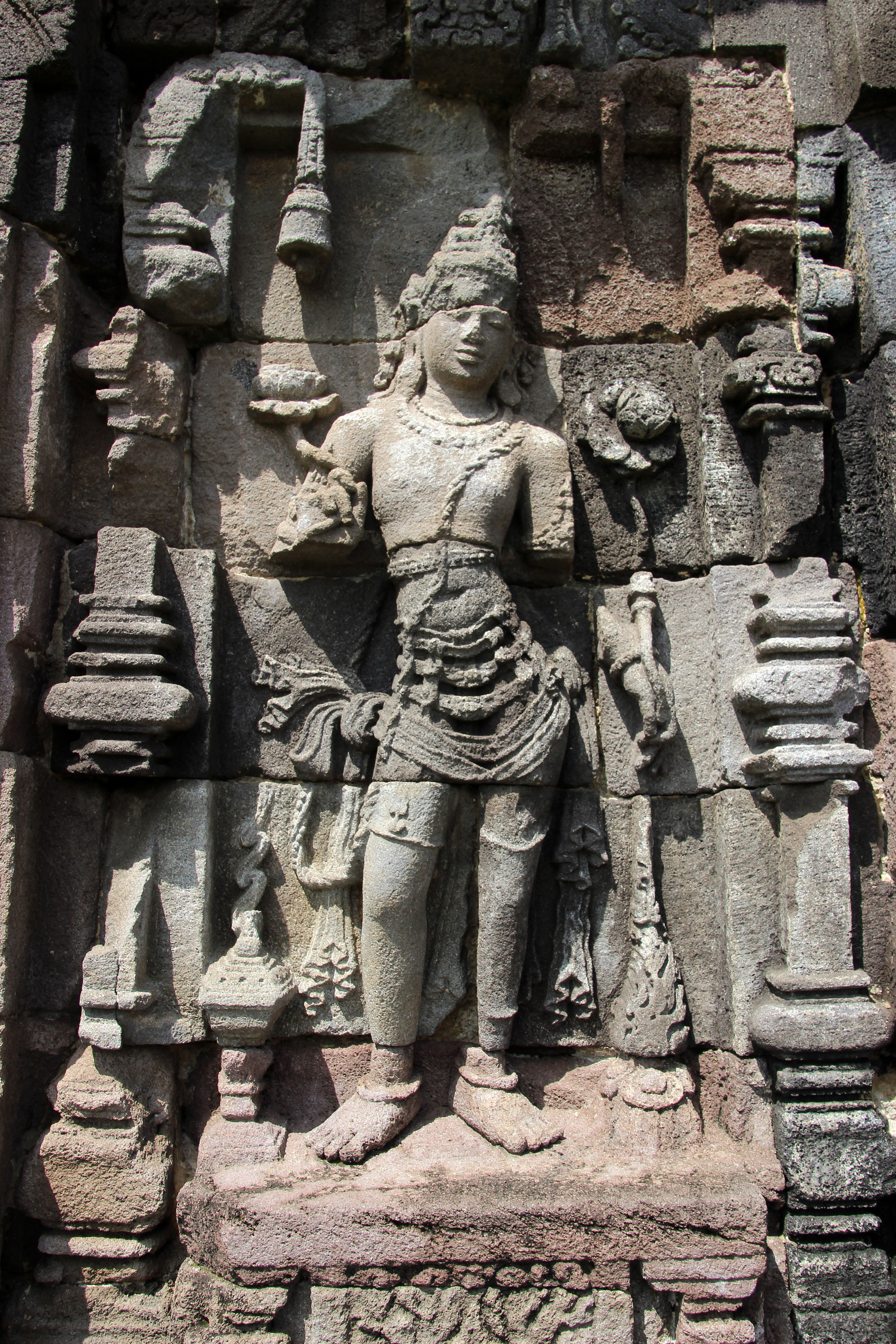 An exquisite bas-relief of Bodhisattva adorning the outer wall of Candi Plaosan Lor southern main temple. A fine example of the 9th century classical Javanese Buddhist Sailendran art, Plaosan, Klaten Regency, Central Java.